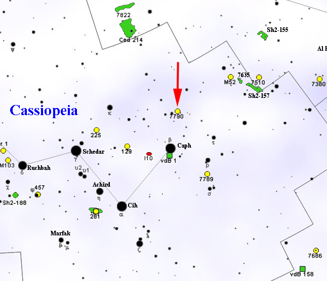 Map of NGC 7790